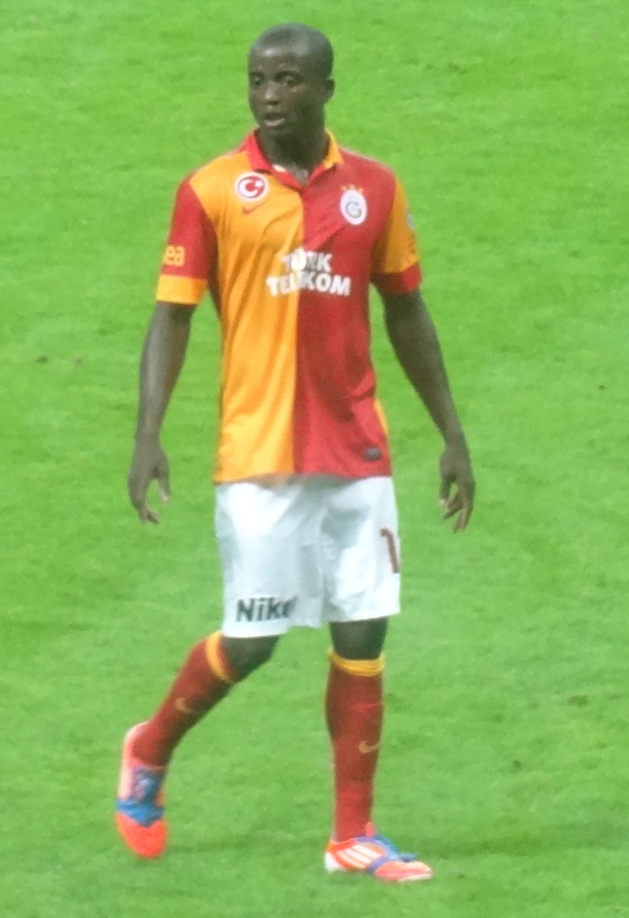 Nounkeu